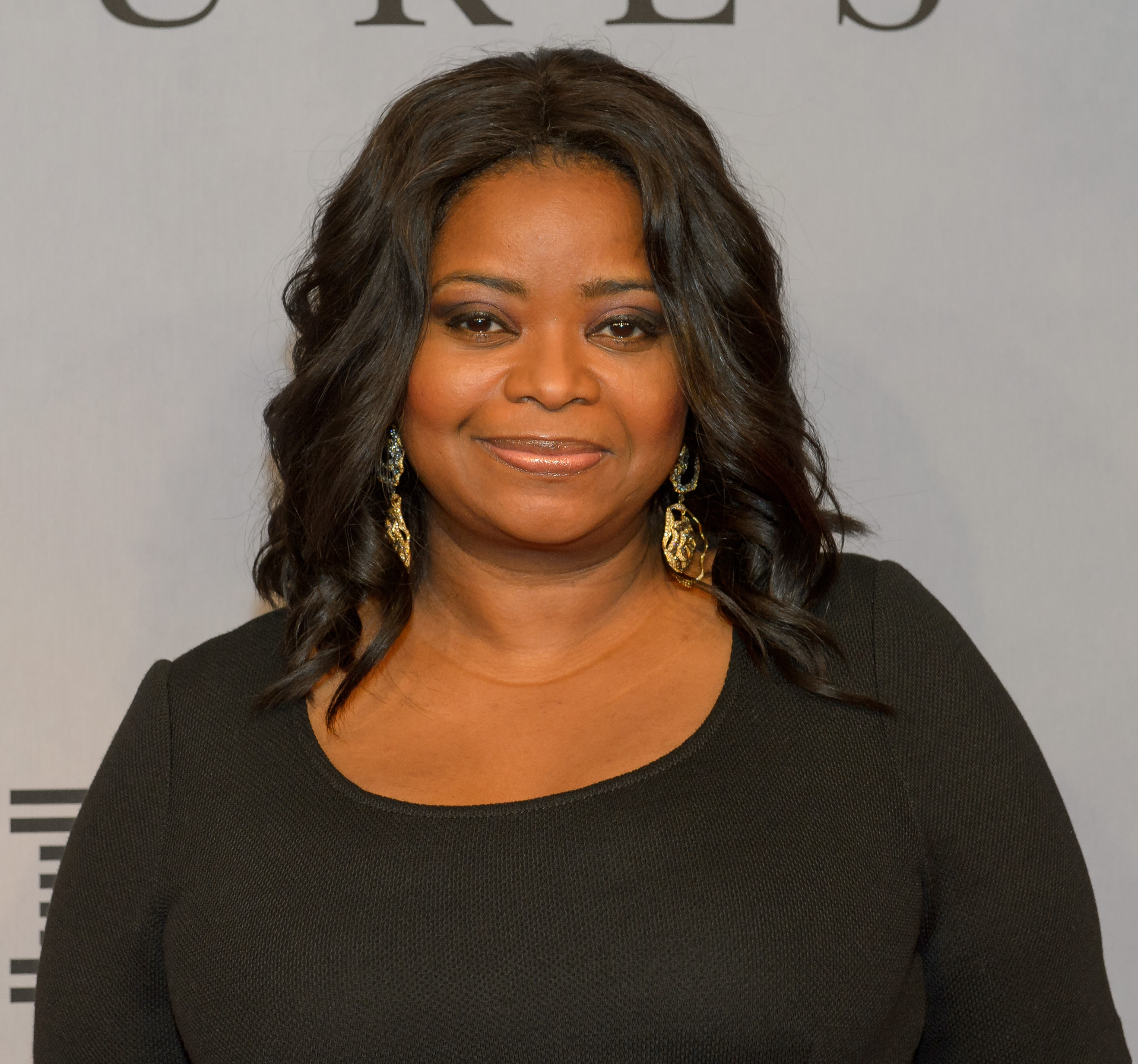 American actress Octavia Spencer arrives on the red carpet for the global celebration of the film "Hidden Figures" at the SVA Theatre, Saturday, Dec. 10, 2016 in New York. The film is based on the book of the same title, by Margot Lee Shetterly, and chronicles the lives of Katherine Johnson, Dorothy Vaughan and Mary Jackson -- African-American women working at NASA as “human computers,” who were critical to the success of John Glenn’s Friendship 7 mission in 1962.